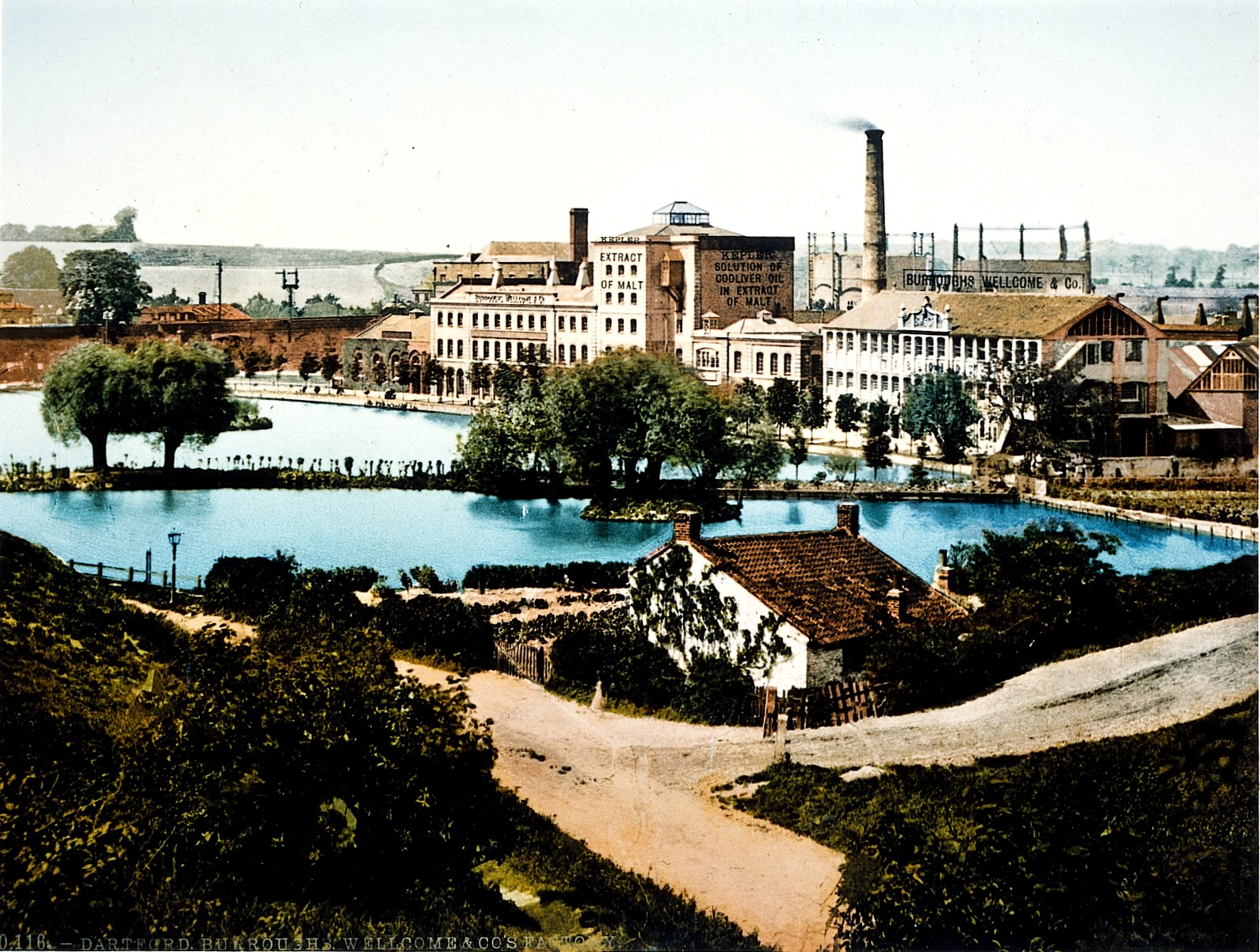 The Chemical Works at Dartford, circa 1896. Wellcome Images